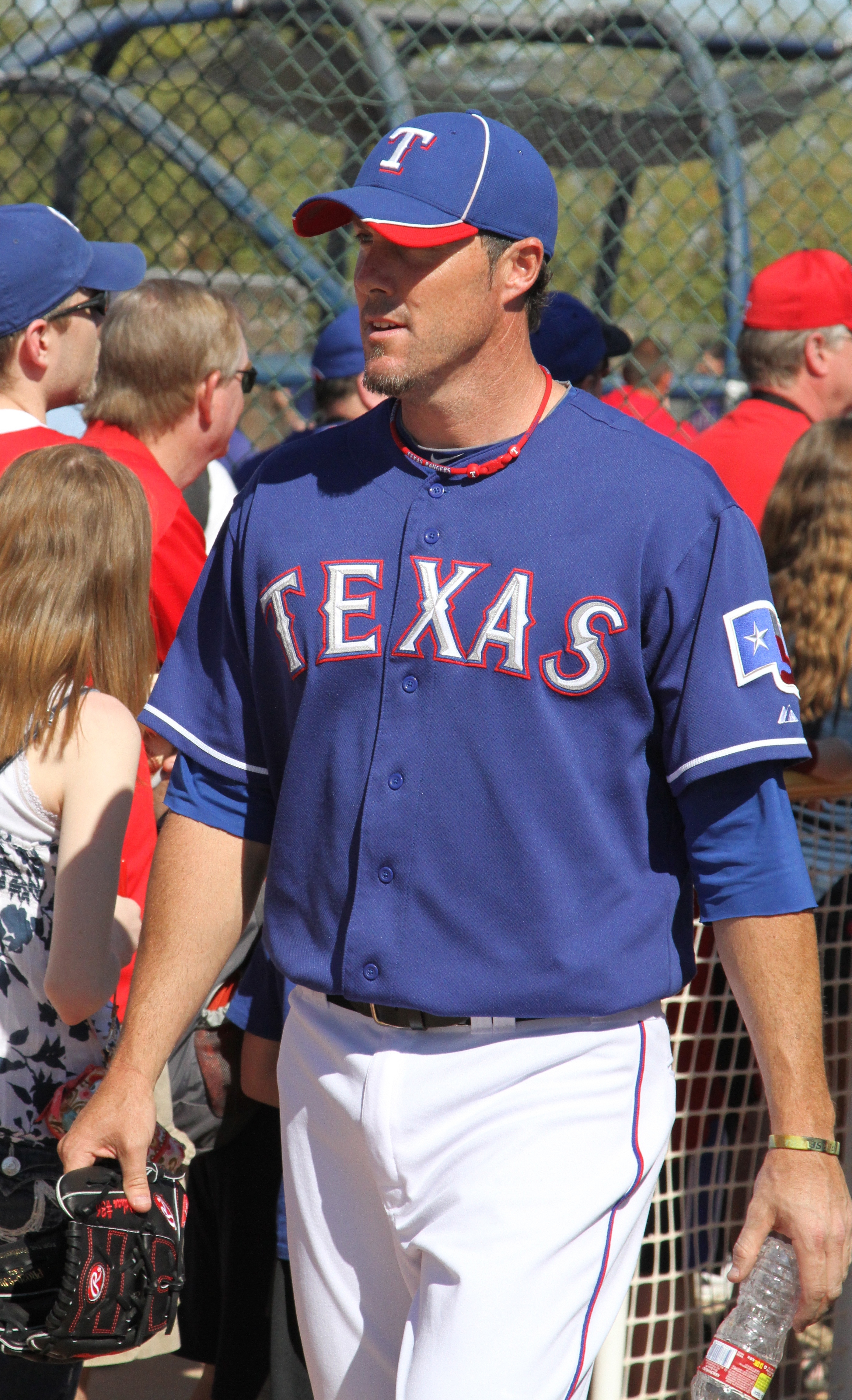 Joe Nathan